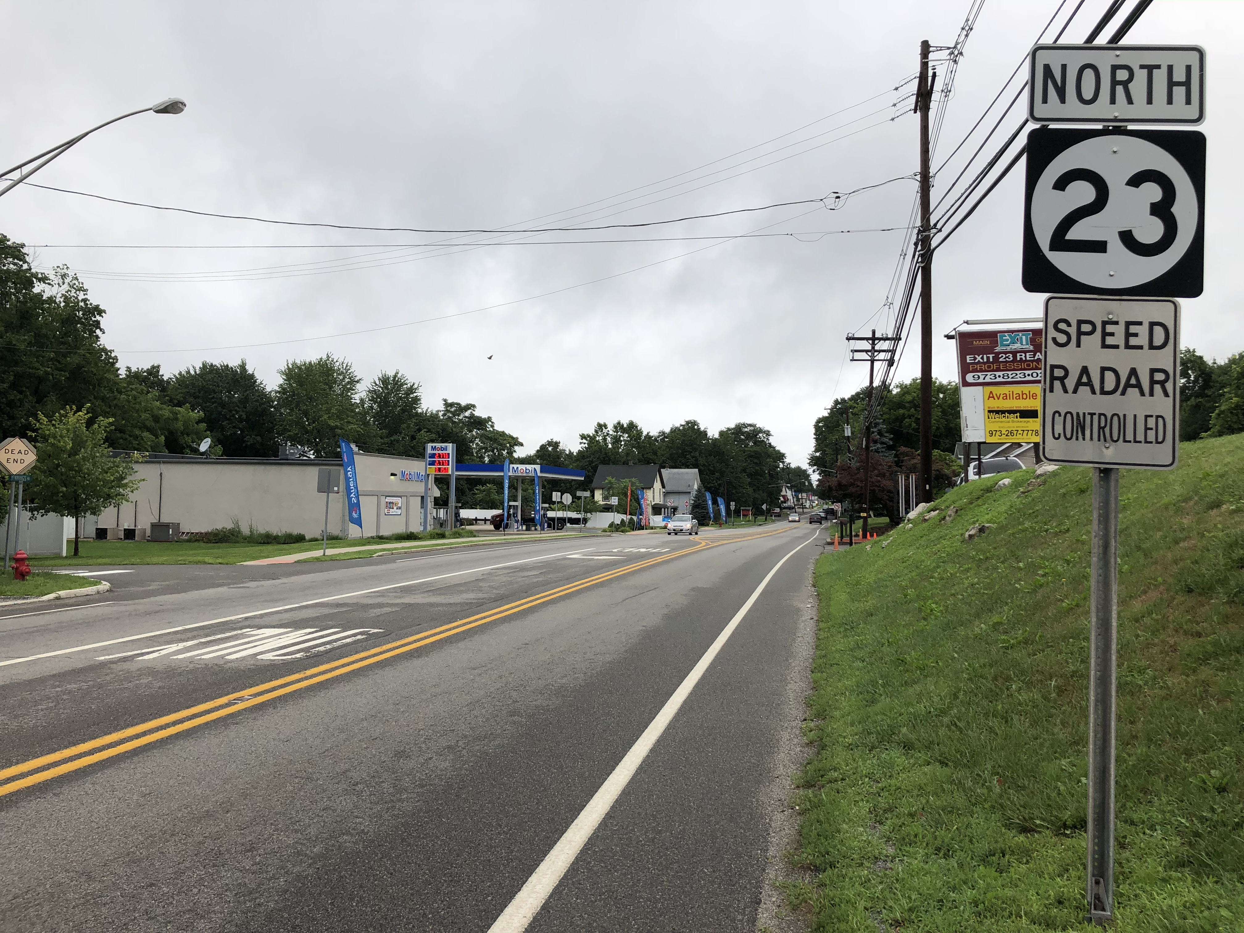 View north along New Jersey State Route 23 (Hamburg Turnpike) at Sussex County Route 517 (Quarry Road) in Hamburg, Sussex County, New Jersey